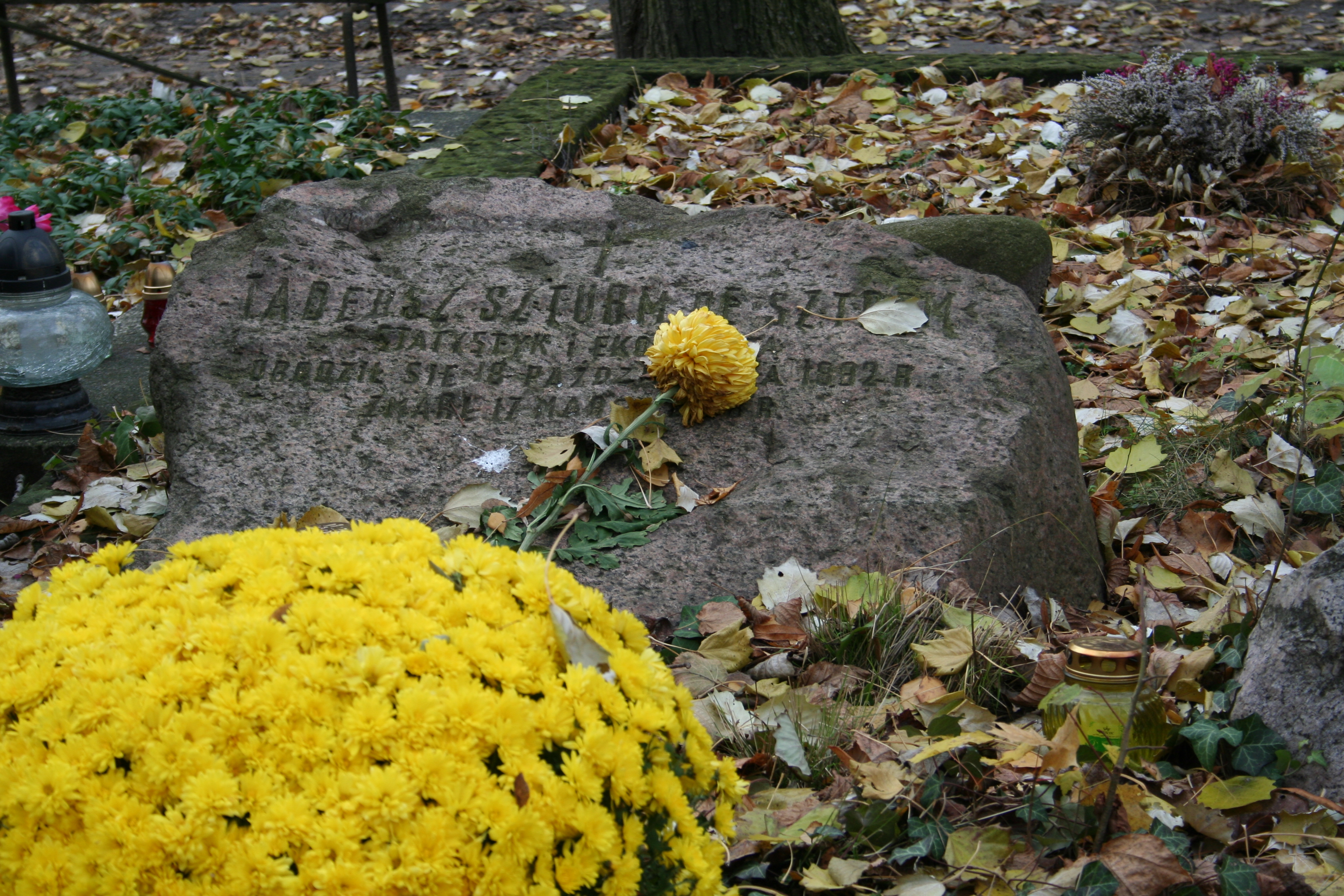 Grave of Tadeusz Szturm de Sztrem at Powązki Cemetery in Warsaw, Poland